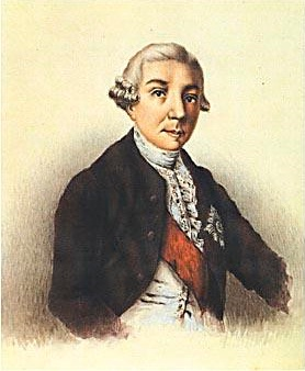 Martin Melo e Castro, Secretary of the Navy and Overseas of Portugal between 1770 and 1796